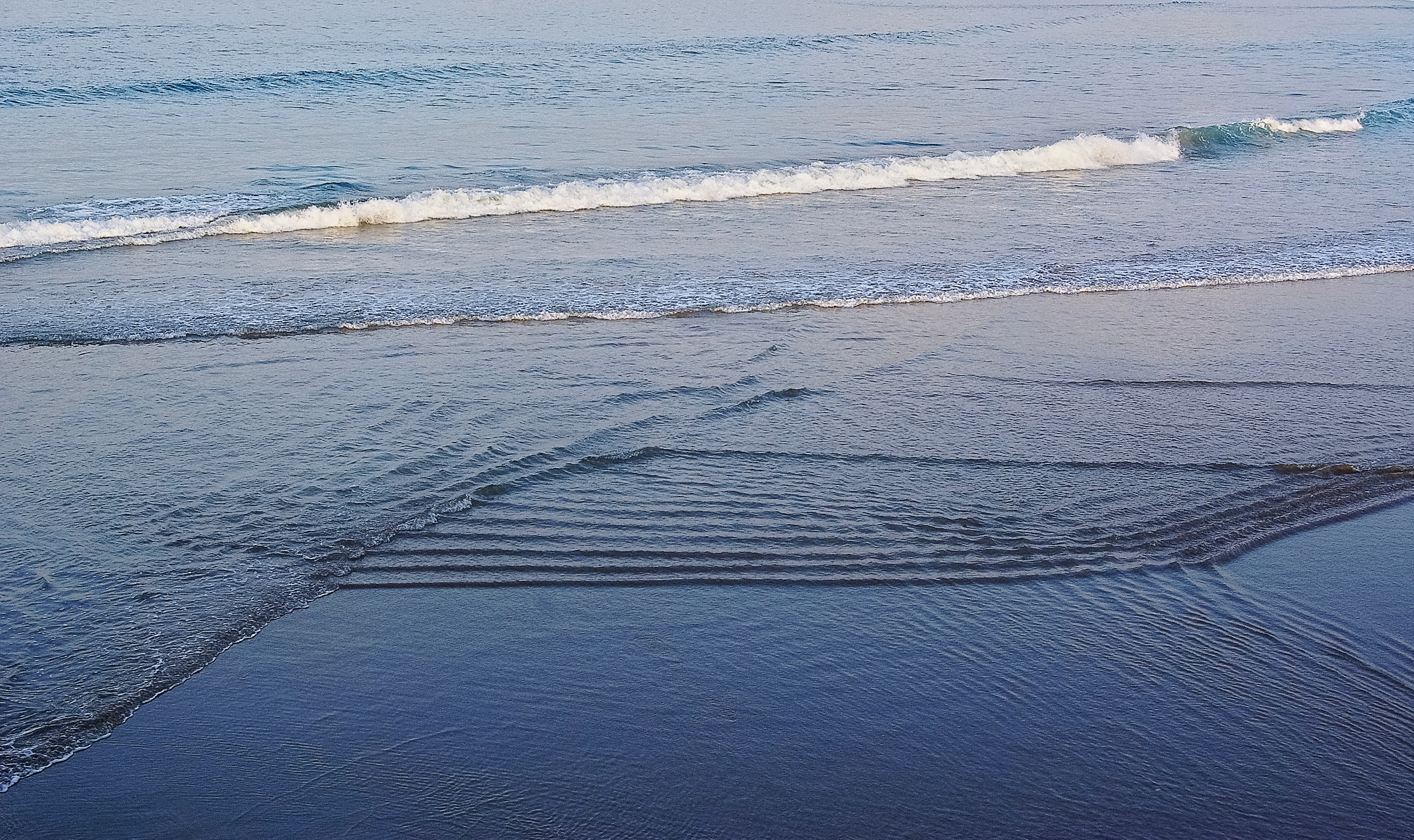 Gentle ebb and flow on the beach in the vening. Hendaye, Hautes-Pyrénées, France.